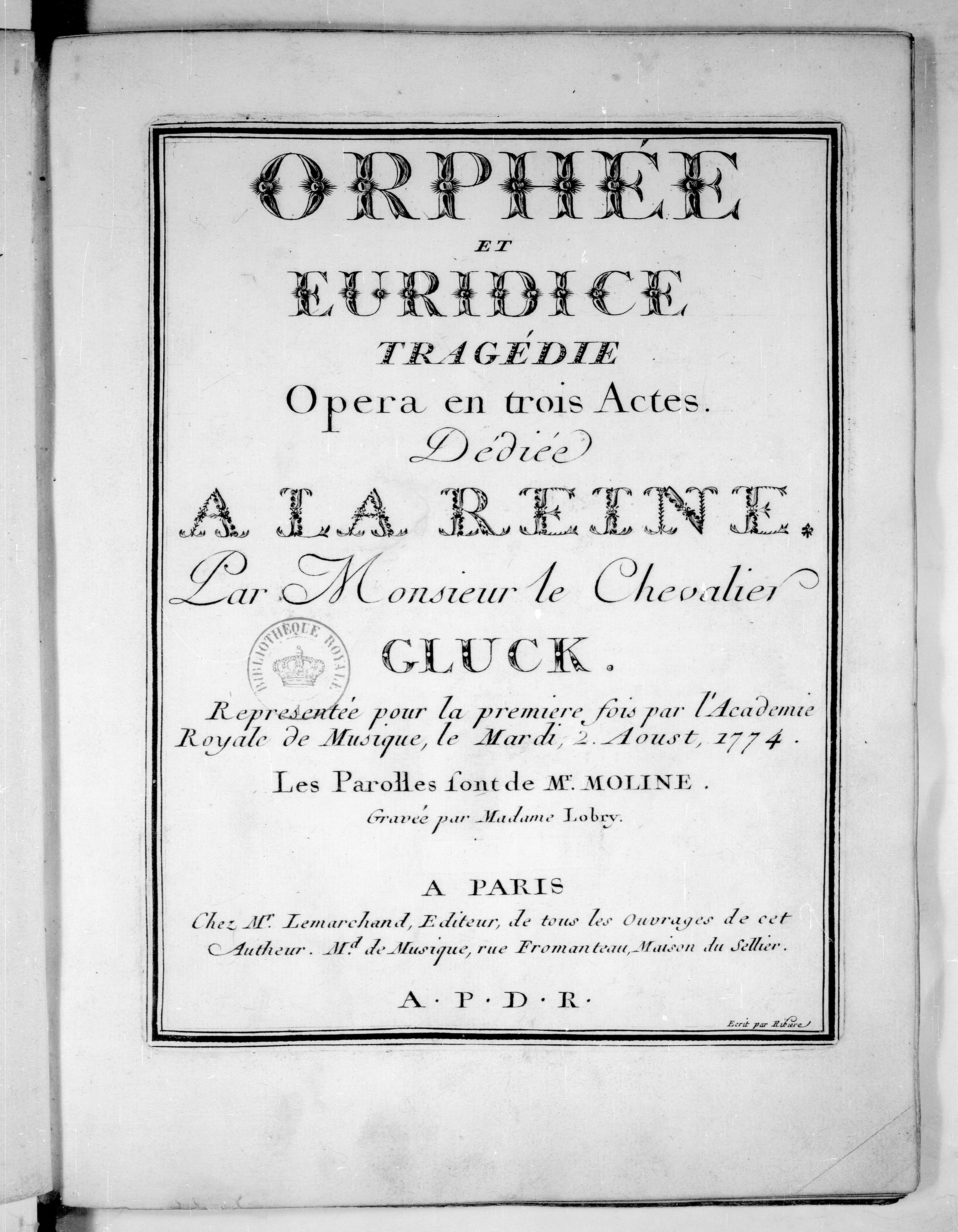 Title page of the 1774 full score of the French version of Gluck's opera Orphée et Euridice as published by Lemarchand in Paris